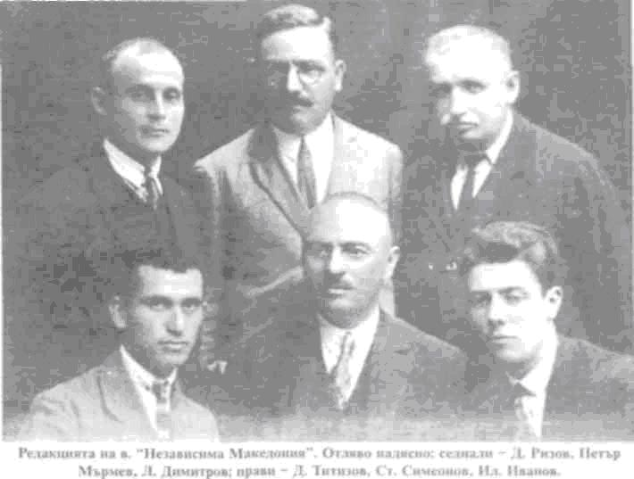 IMARO revolutionary/ies